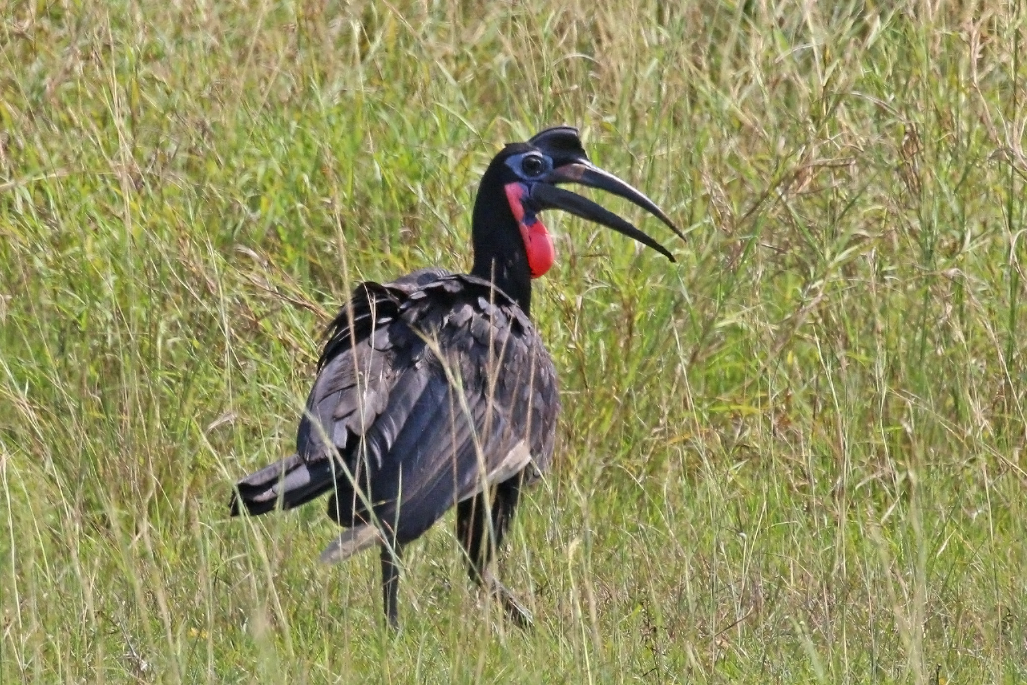 Abyssinian ground-hornbill (Bucorvus abyssinicus) male, Semiliki Wildlife Reserve, Uganda